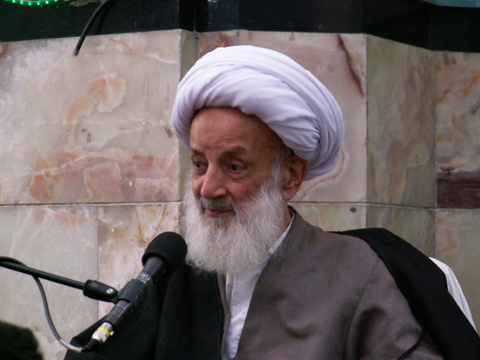 Ayatollah Ahmad Mojtahedi Tehrani